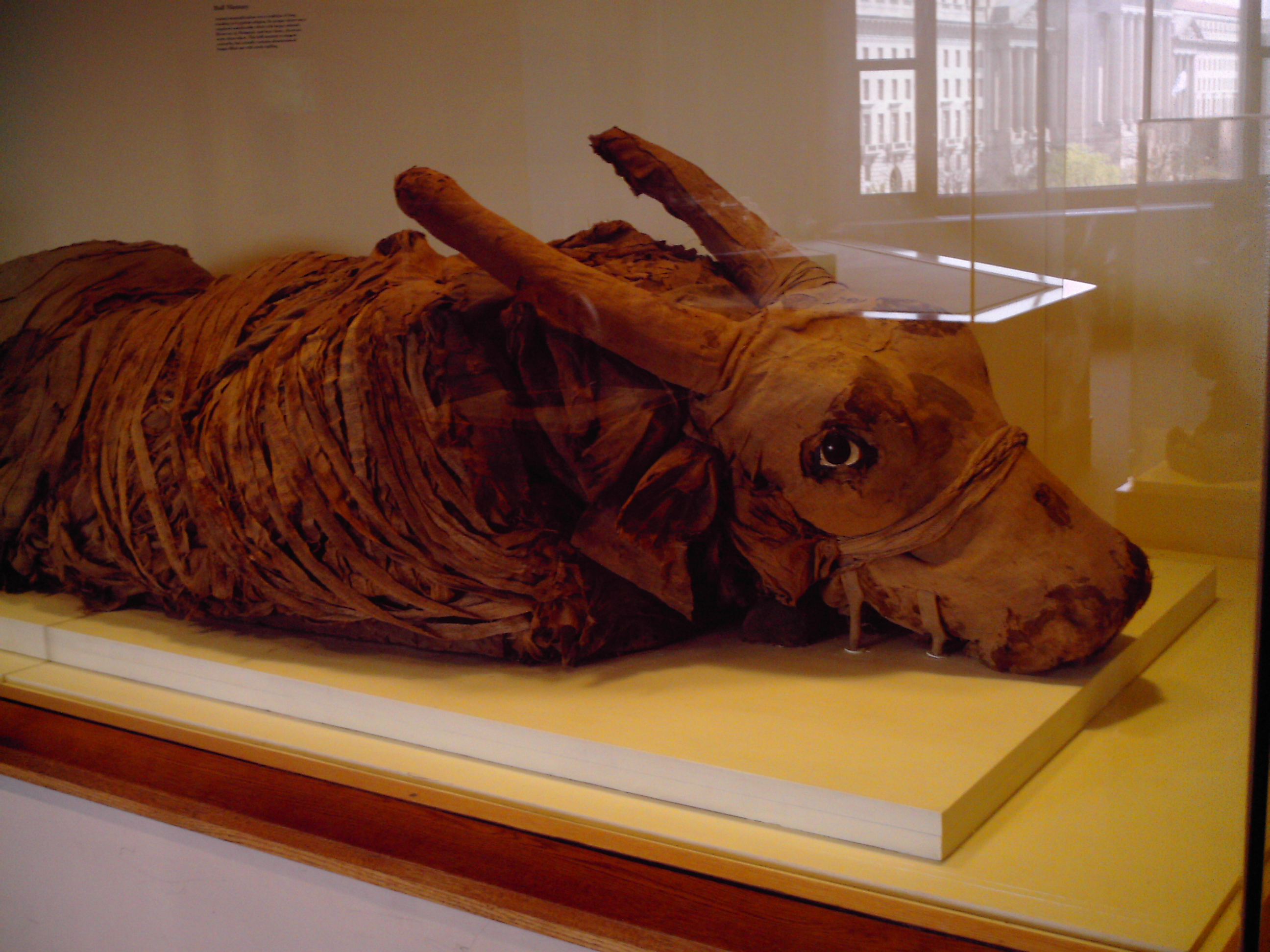 Mummified Bull at the National Museum of Natural History.